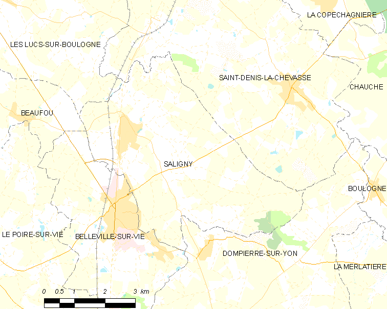 Map of French municipality Saligny